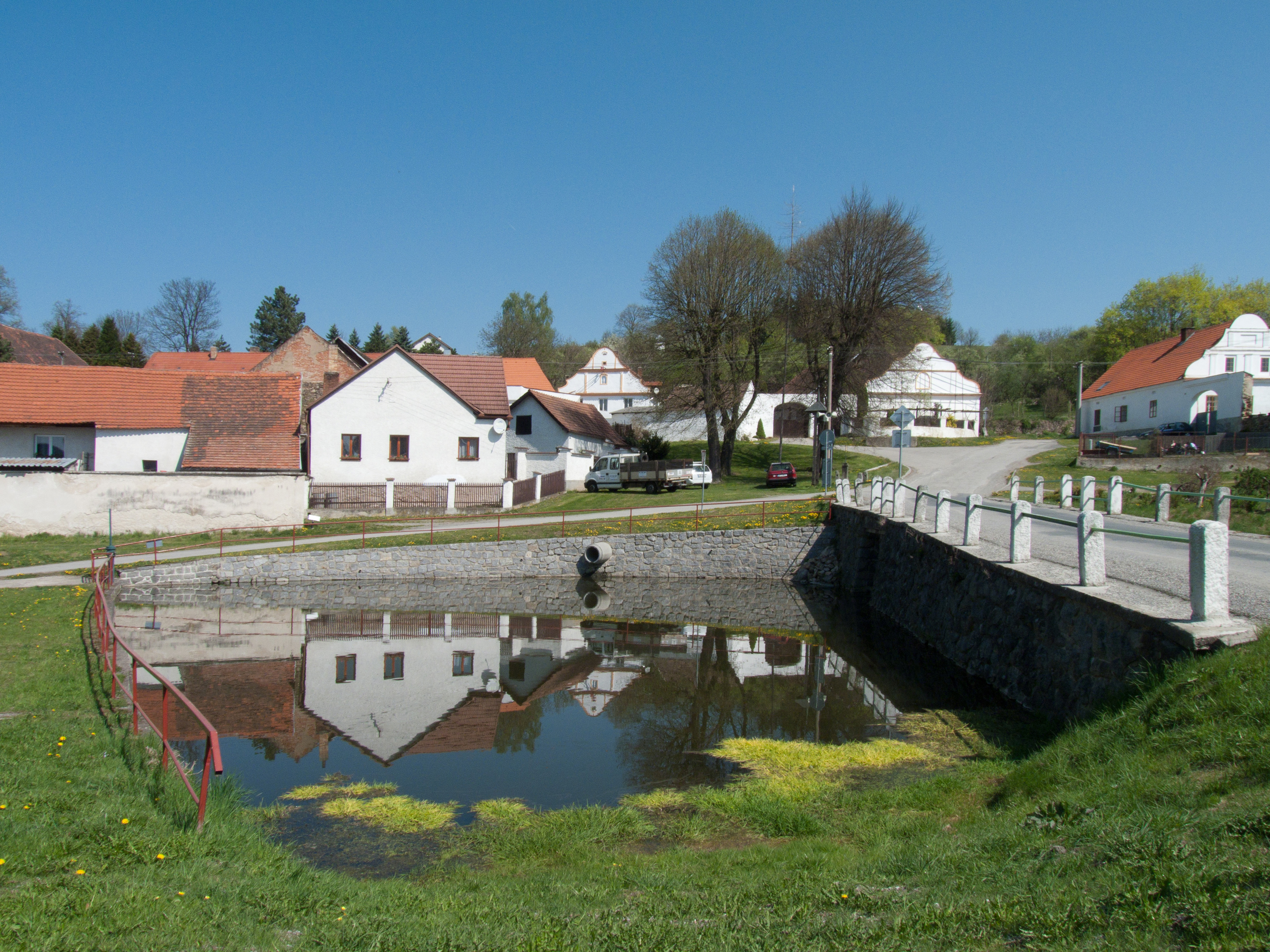 Pond in the village of Přechovice, Strakonice District, Czech Republic, view towards houses Nos 23 and 14. Česky: Rybník v obci Přechovice v okrese Strakonice, pohled k domům č.p. 23 a 14.